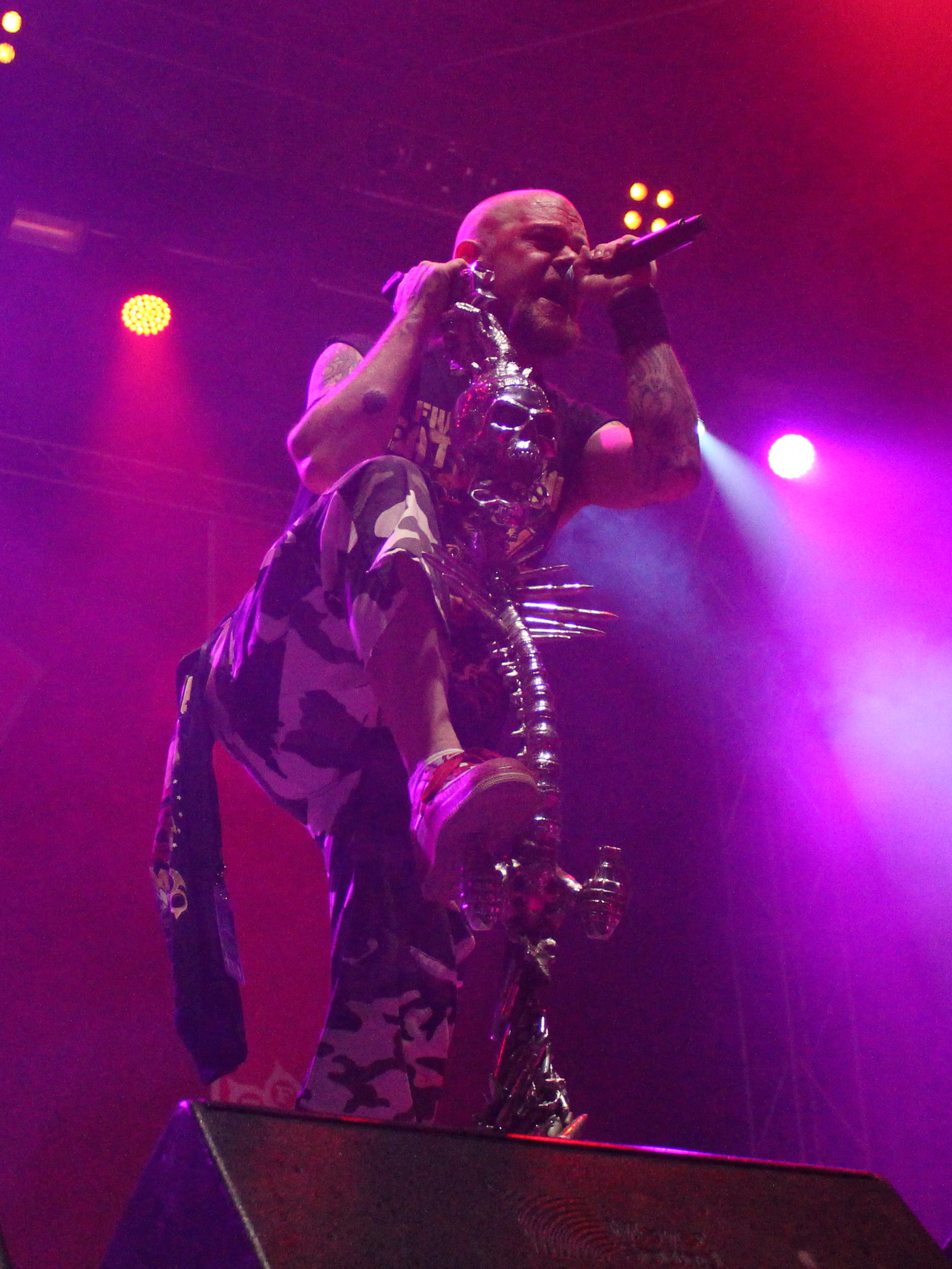 Festivalsommer This photo was created with the support of donations to Wikimedia Deutschland in the context of the CPB project "Festival Summer".